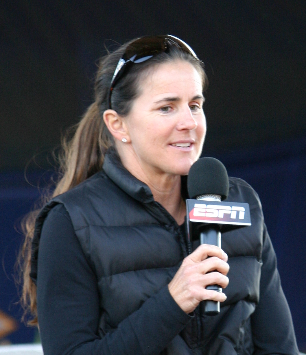 Brandi Chastain answering questions at Inside SportsCenter on the Sorcerer Hat Stage at Disney's Hollywood Studios during ESPN the Weekend, February 26, 2010